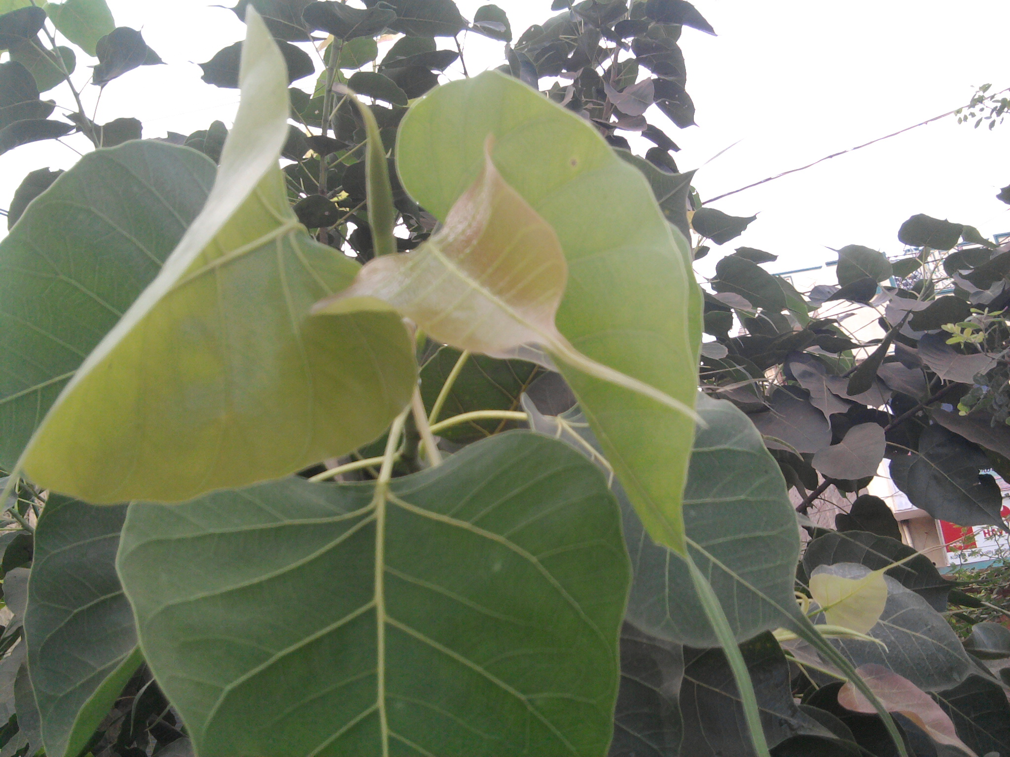 Ficus religiosa Leafs